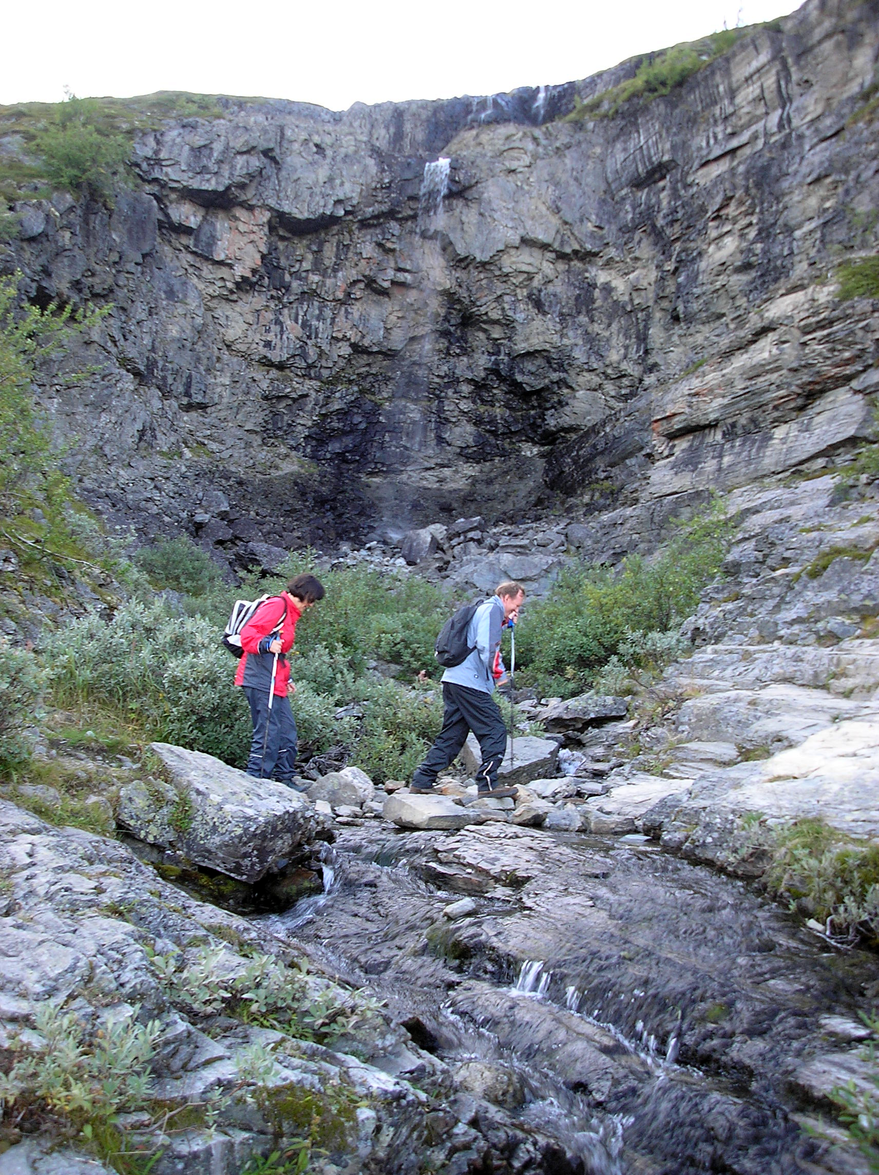 Two hikers and Kitsiputous waterfall, one of the main attractions of Malla Nature Reserve in Enontekiö, Finland. Due to the picture having been taken in late summer, there's only little water flowing.